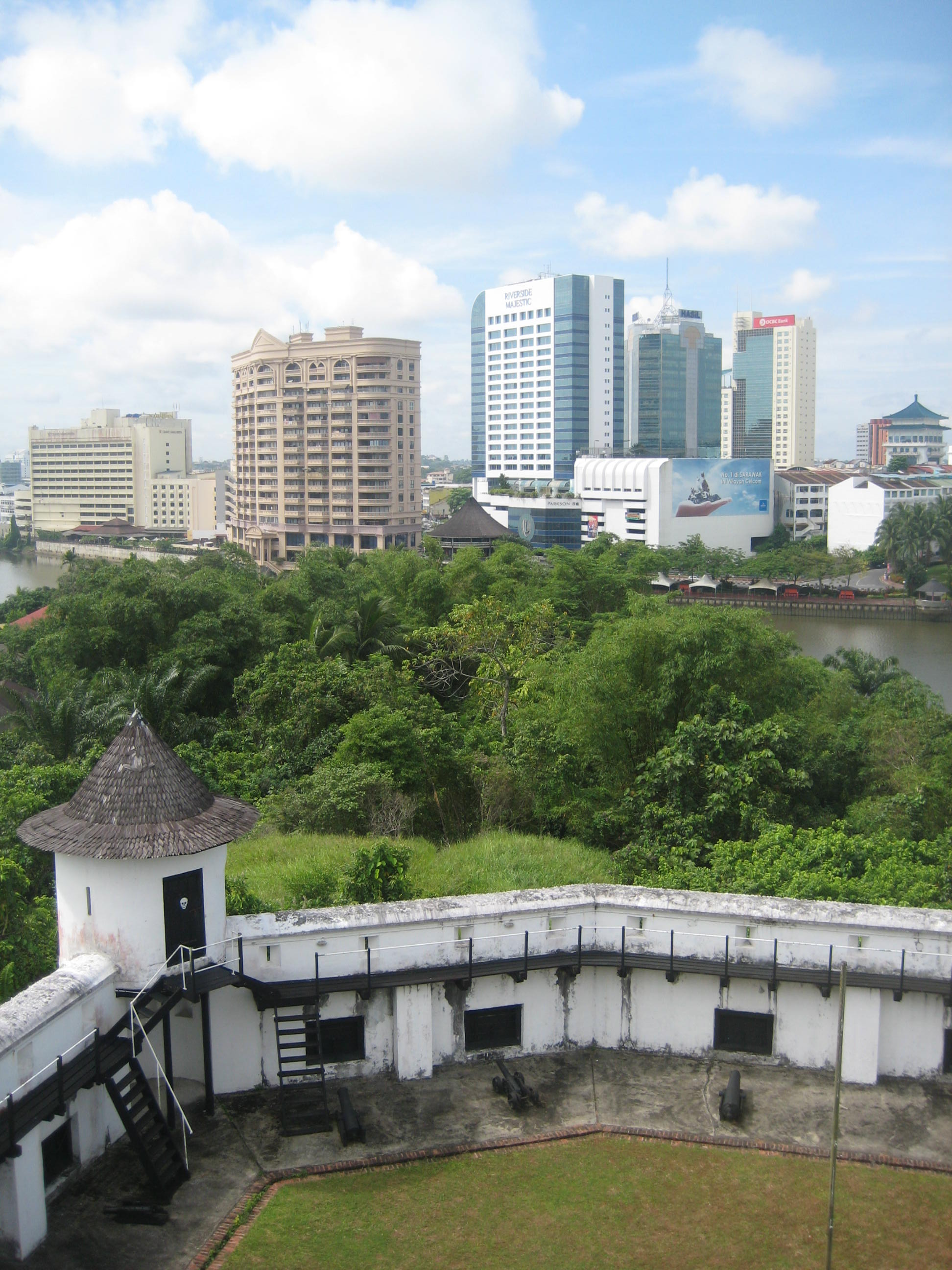 View of downtown Kuching from Fort Margherita.